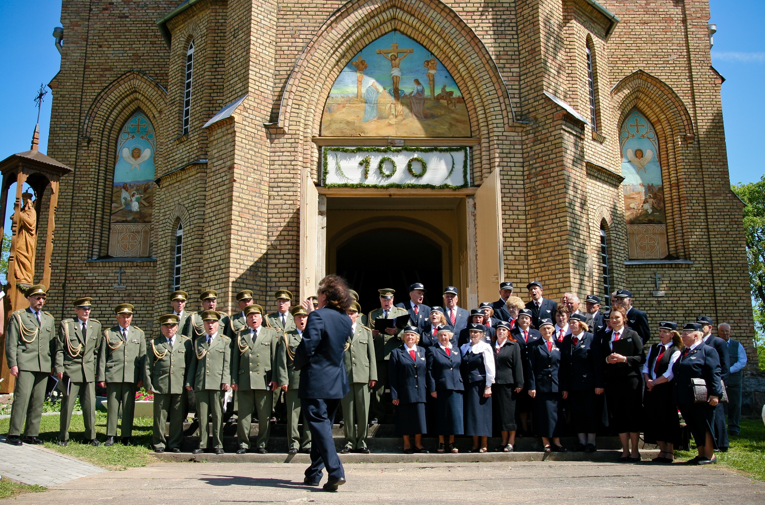 Choir singing at church jubilee festivities in 2010, Vepriai, Lithuania